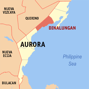 Map of Aurora showing the location of Dinalungan